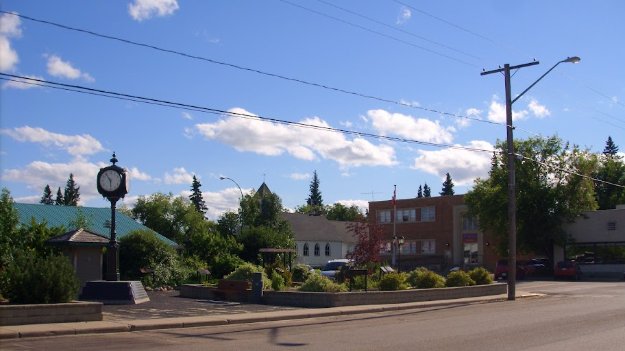 Garden in central St. Walburg, Saskatchewan.